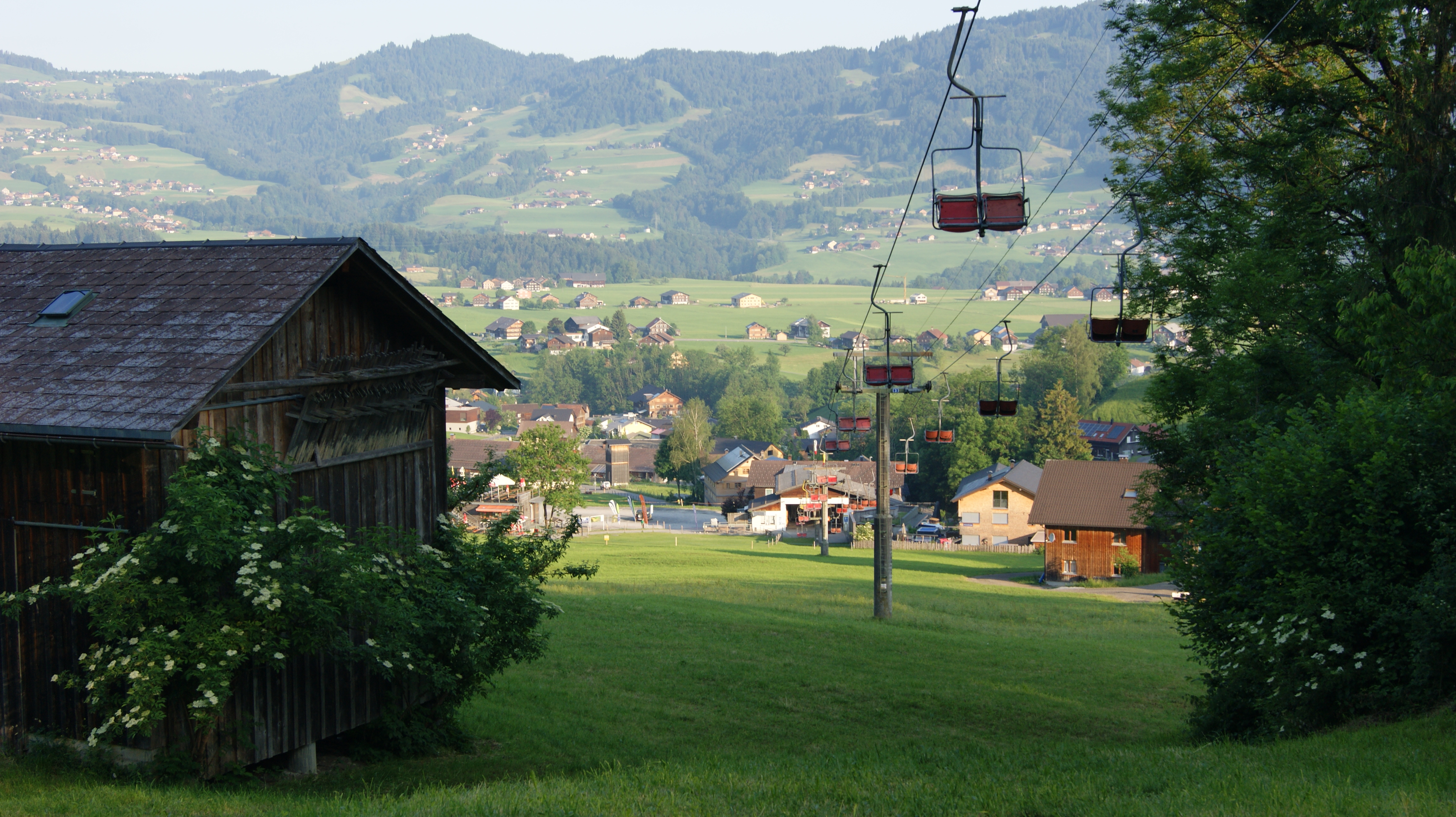 Andelsbucher Bergbahnen - Gerach - Niedere in Andelsbuch, Vorarlberg, Austria. Bottom station of the 1st section of the double chairlift Andelsbuch-Gerach-Niedere, at about 658 masl.